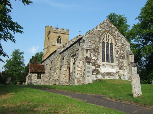 St Nicholas' parish church, Church End, Hockliffe, Bedfordshire, seen from the east